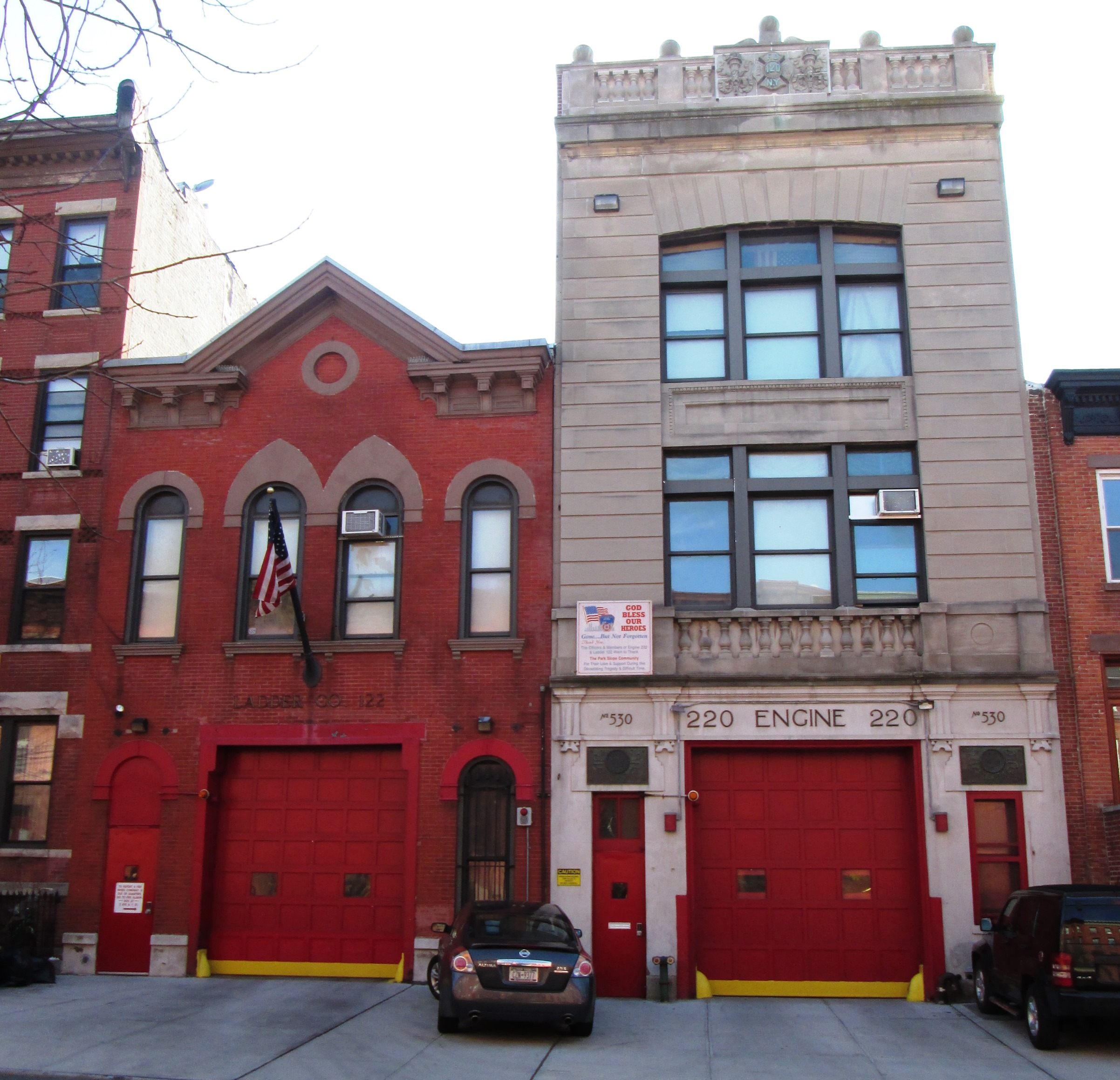 Ladder Company #122 (left) and Engine Company #220 (right) at 532 and 530 11th Street (respectively) between Seventh and Eighth Avenues in the South Slope neighborhood of Brooklyn, New York City, were built in c.1879 and c.1906. The older firehouse is in the Gothic Revival style and was designed by Francis D. Norris, while the newer one is in the Beaux-Arts style, and was designed by Walter E. Parfitt, later of the Parfitt Bros. firm. Both buildings are located in the Park Slope Historic District Extension. (Sources: AIA Guide to NYC (5th ed.) and "Park Slope Historic District Extension Designation Report")